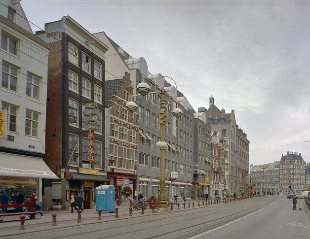 Rokin in Amsterdam. The grey building Rokin Plaza is where Hotel Polen stood which disastrously burned down in 1977